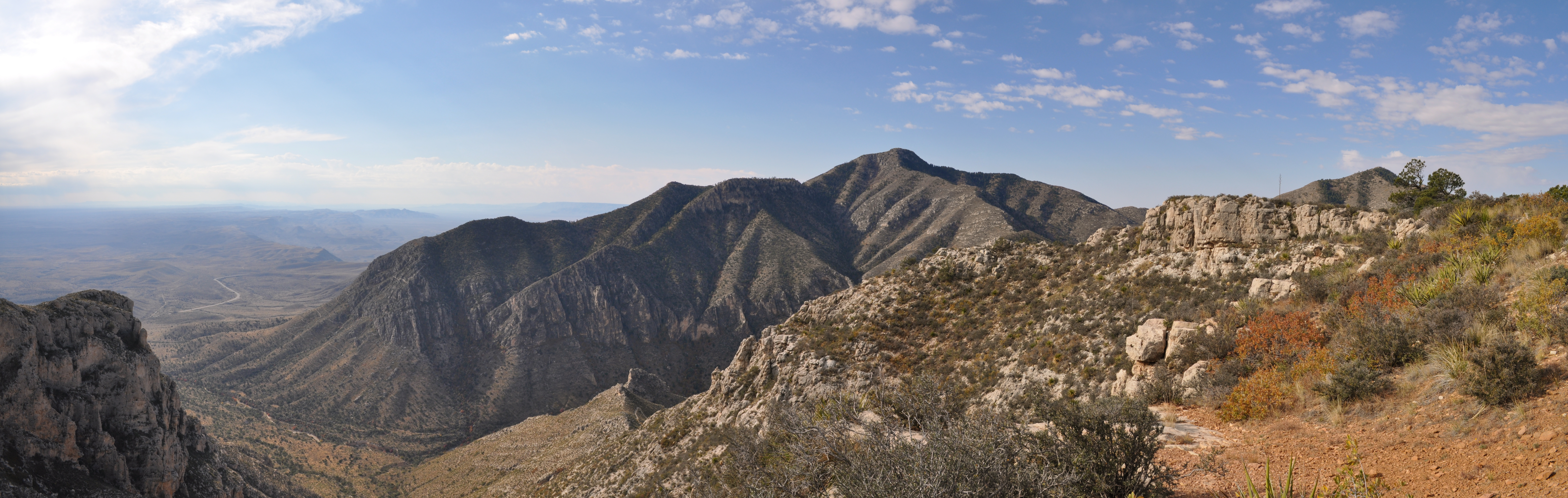 Guadalupe Peak and Pine Spring Canyon viewed from the Bowl Trail between its intersection with the Tejas Trail and Hunter Peak in Guadalupe Mountains National Park, Texas. Shumard Peak is visible at right and the Delaware Mountains and US route 62/180 are visible at left in background. Center of image is looking approximately southwest.